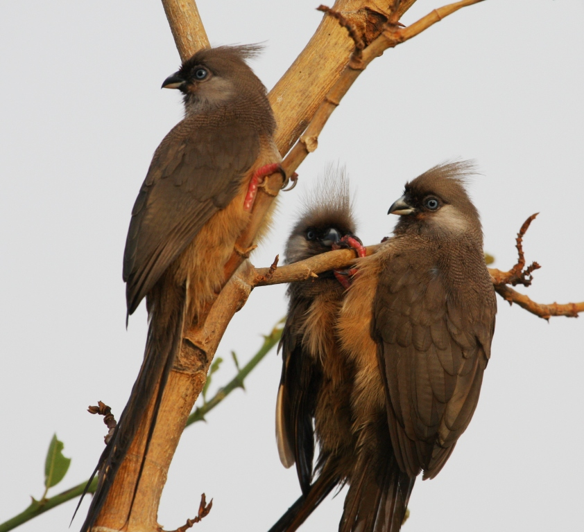 A group of Speckled Mousebirds on a lake shore bush at Lake Tana, Bahir Dar, Ethiopia